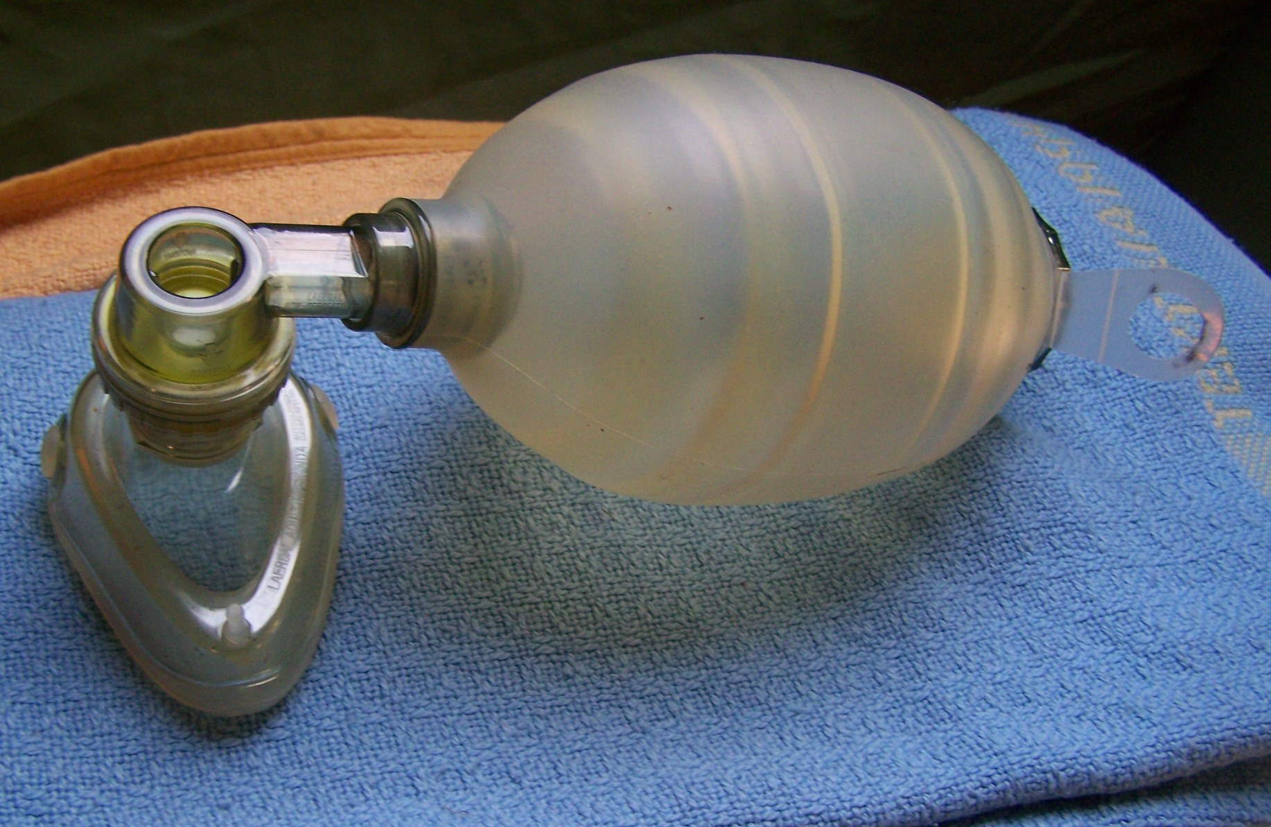 Bag Valve Mask (AMBU-bag). Used for manual ventilation of the patient in case of a respiratory emergency.